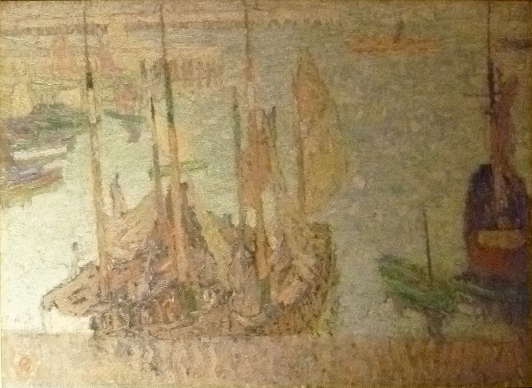 "The port of Ostend" (ca. 1912), oil on canvas by the Belgian expressionist painter Gustave De Smet; in private collection